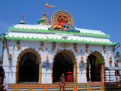 Small copy of Sarala Temple in Jagatsinghpur, Orissa